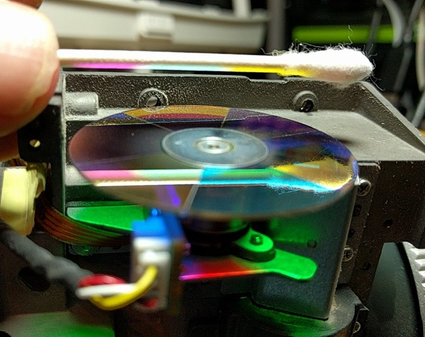 Color wheel from a DLP projector. Wheel has 6 segments and passes RGBRGB light. It uses dichroic filters which reflect the unwanted light (rather than absorbing it as stained glass would), hence the q-tip is illuminated by reflected Cyan/Magenta/Yellow, as this is what remains from white light when the Red/Green/Blue is removed.